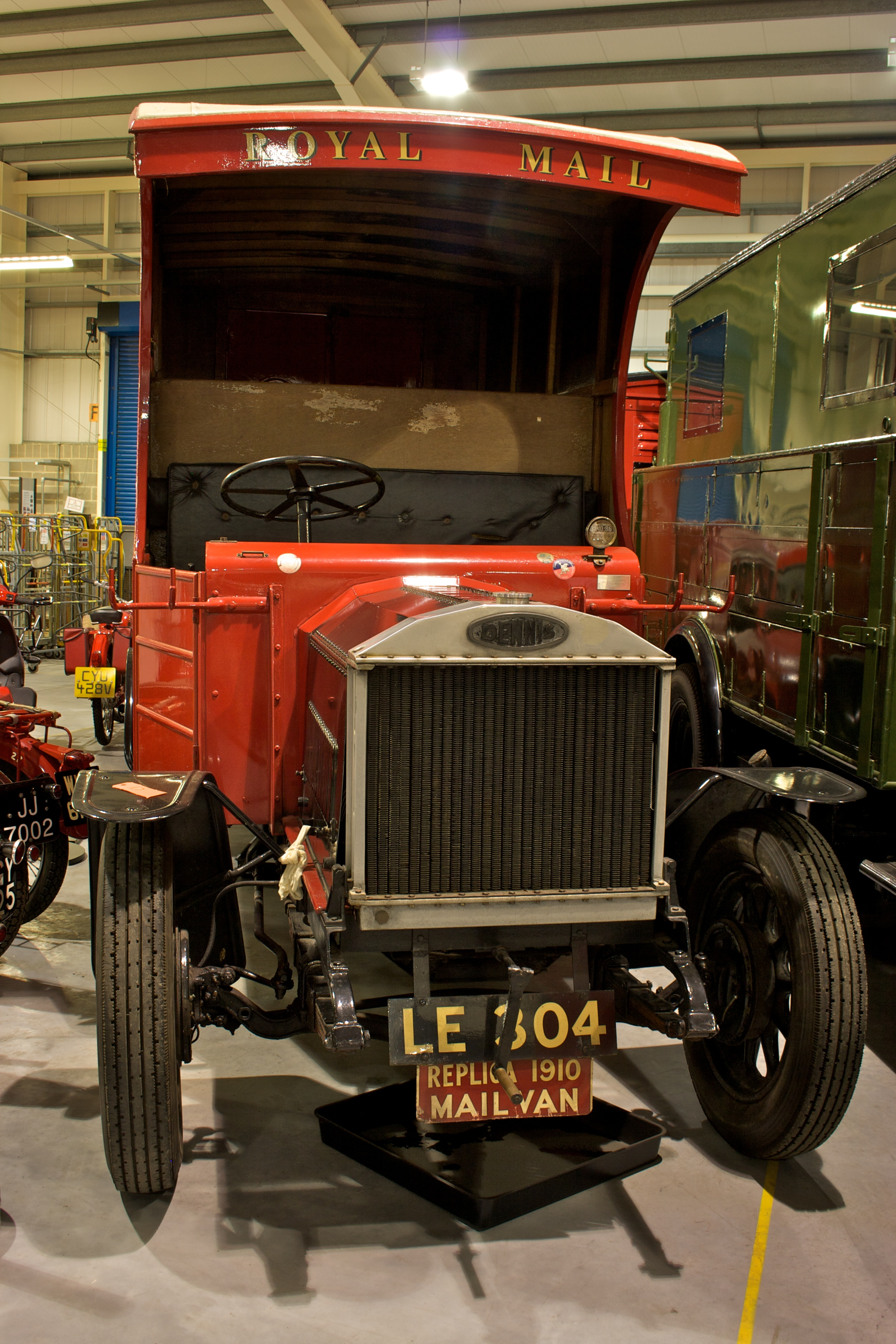 Royal Mail Dennis van, LE 304, at the British Postal Museum & Archive.